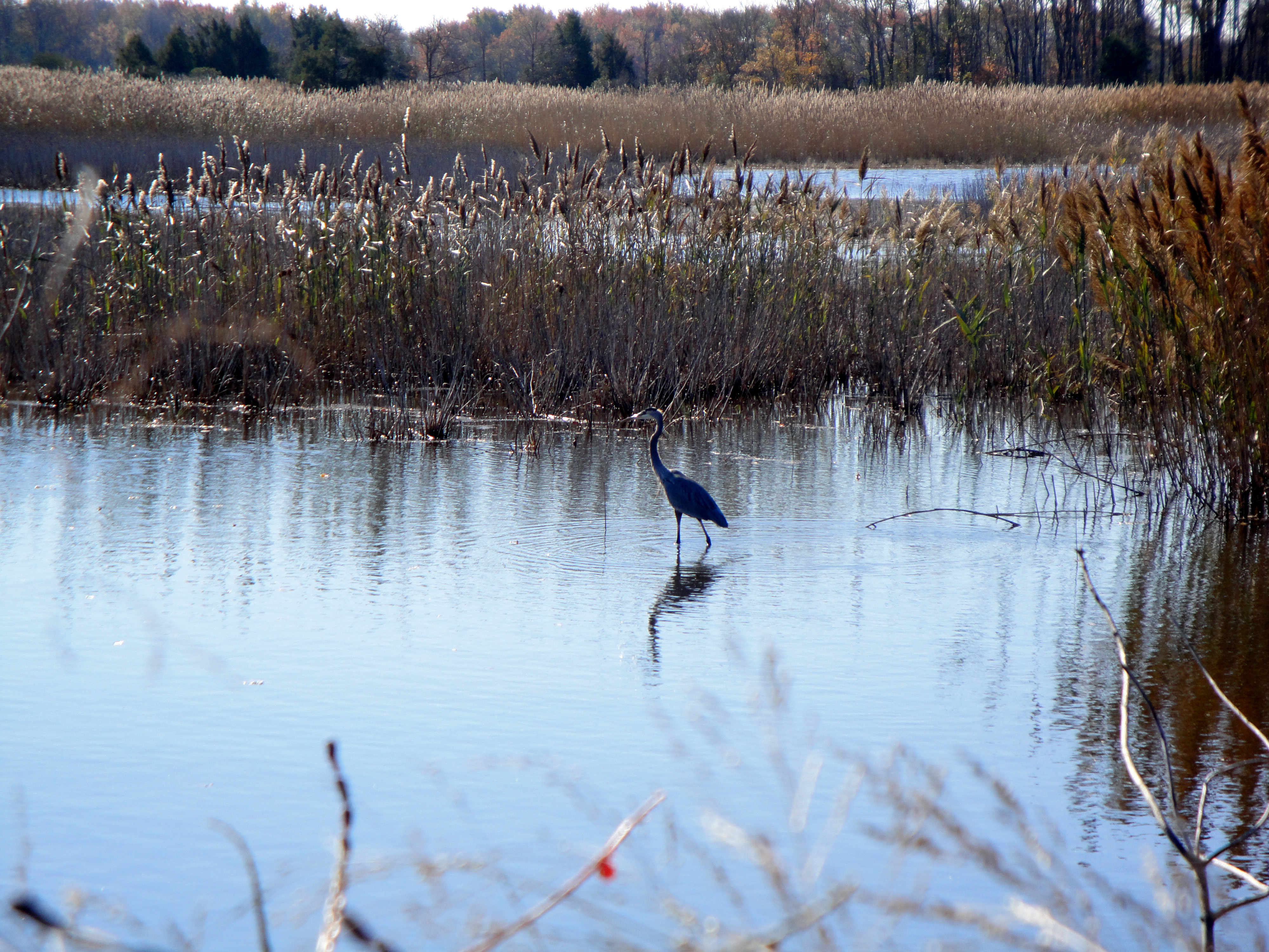 View of a great blue heron at Prime Hook National Wildlife Refuge, Milton, Delaware, USA.